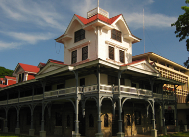 Silliman Hall, built in 1902-1903, is the oldest standing American structure in the Philippines. Its architecture is reminiscent of the Stick Style or Victorian type of architecture that characterize American buildings in the 19th century. Some of the materials used to build it were salvaged from an old theater in New York.